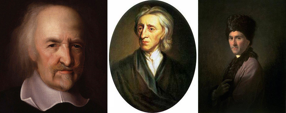 Thomas Hobbes